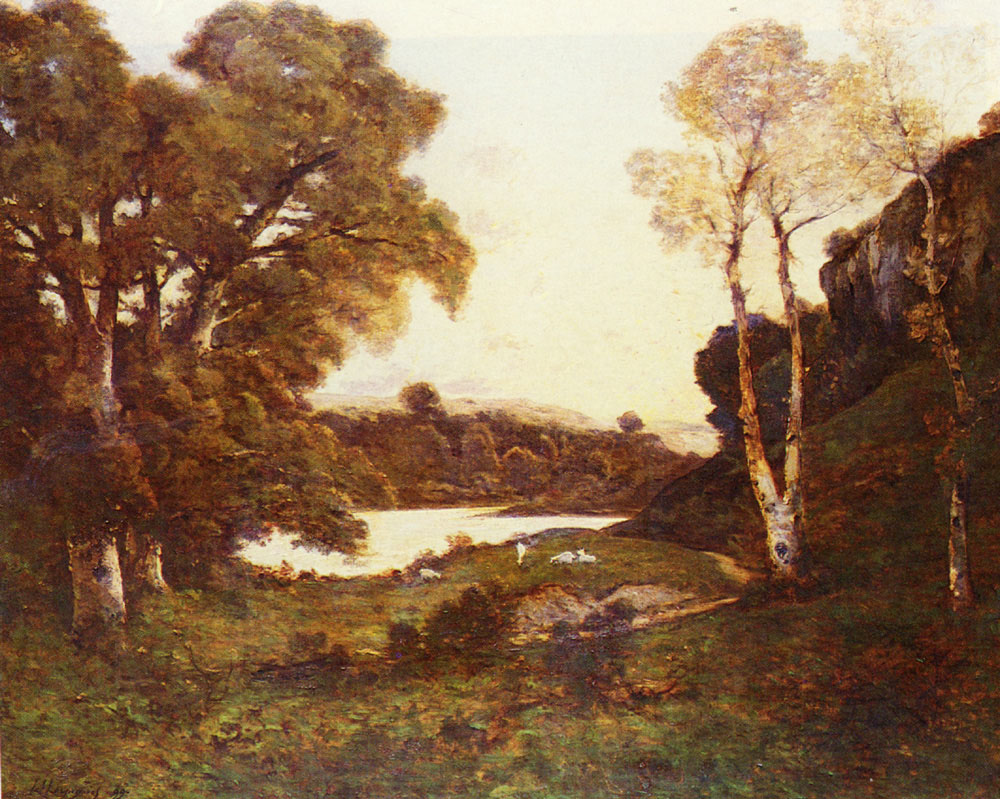 Goats Grazing Beside A Lake At Sunset